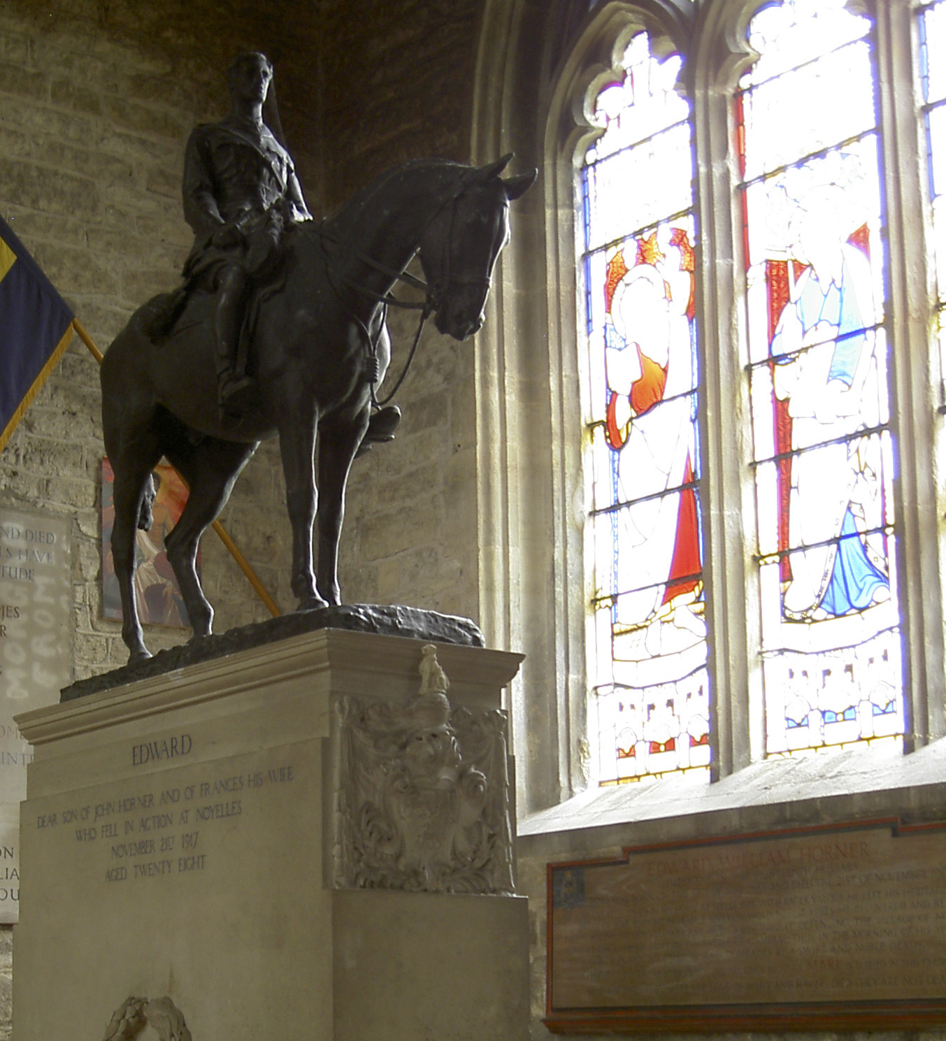 'He hath out outsoared the shadow of our night'